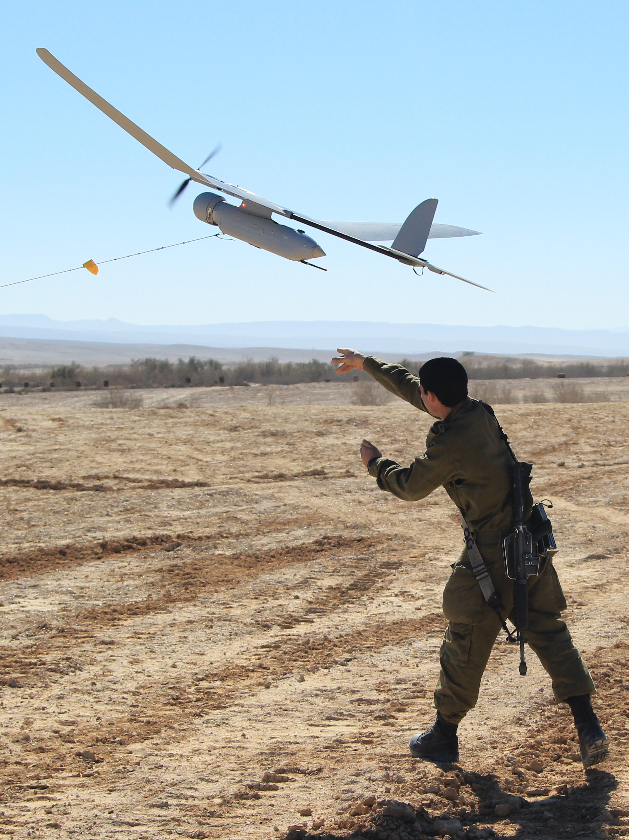 January 21, 2013 Soldiers of the Skylark I-LE unit spent a week in the Negev Desert learning how to operate the Skylark drone. The drone is lightweight and unnoticeable up above. It boasts 3 hours of flight-time while streaming a live video feed day and night. Photo by Cpl. Zev Marmorstein, IDF Spokesperson's Unit The Israel Defense Forces Facebook The Israel Defense Forces blog Follow us on Twitter